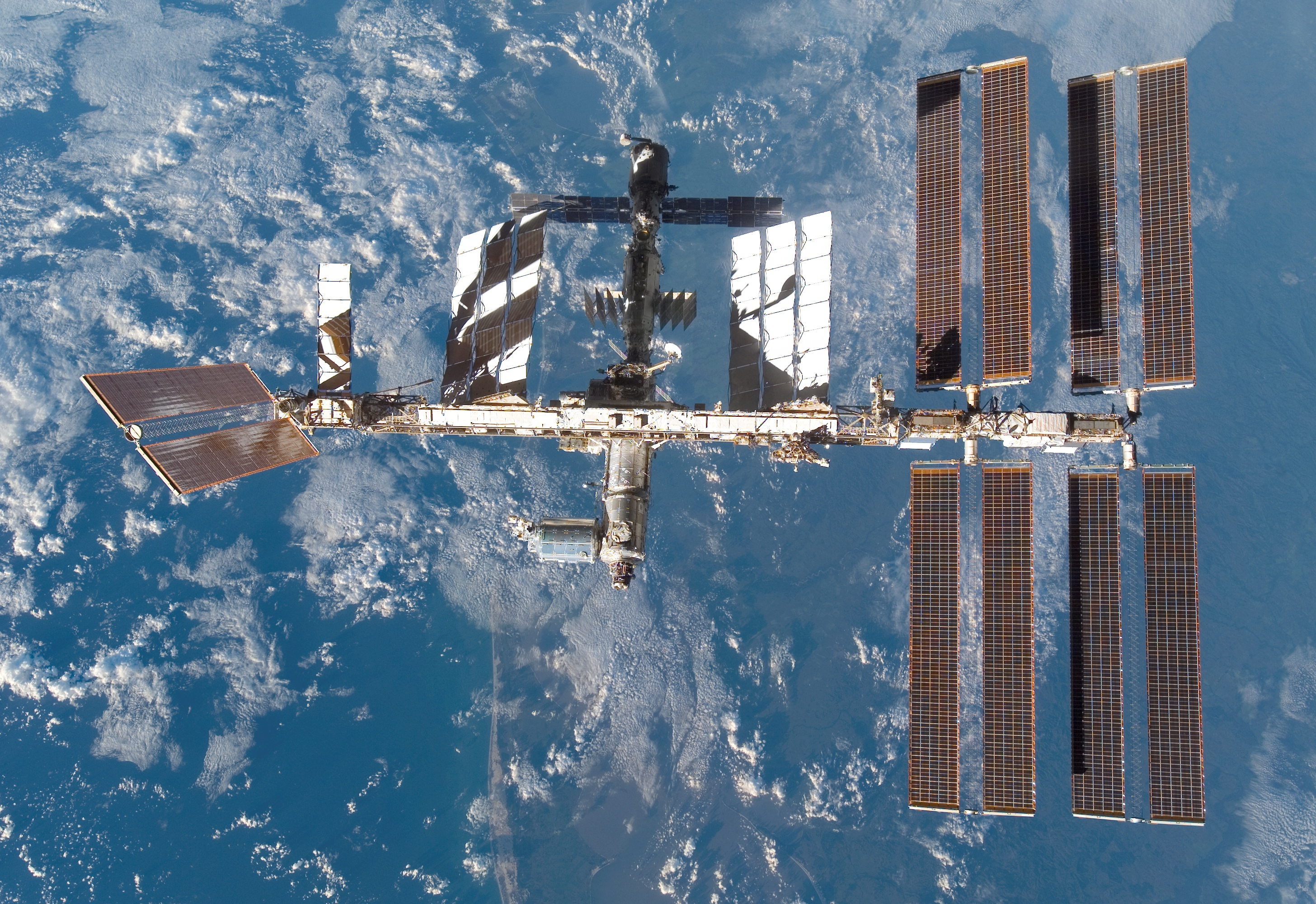 ISS from Discovery STS-122 after undocking on 18 Feb 2008